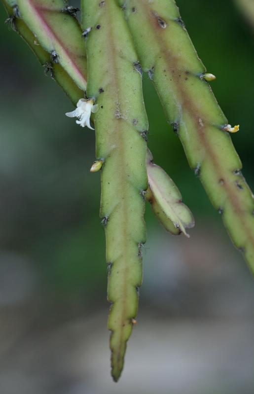 Lepismium cruciforme var. anceps Photo Dr. David Midgley own photo, own plant.